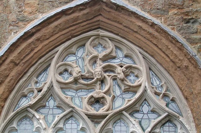 Church of England parish church of Our Lady, Bloxham, Oxfordshire: traceried head of west window of the north aisle